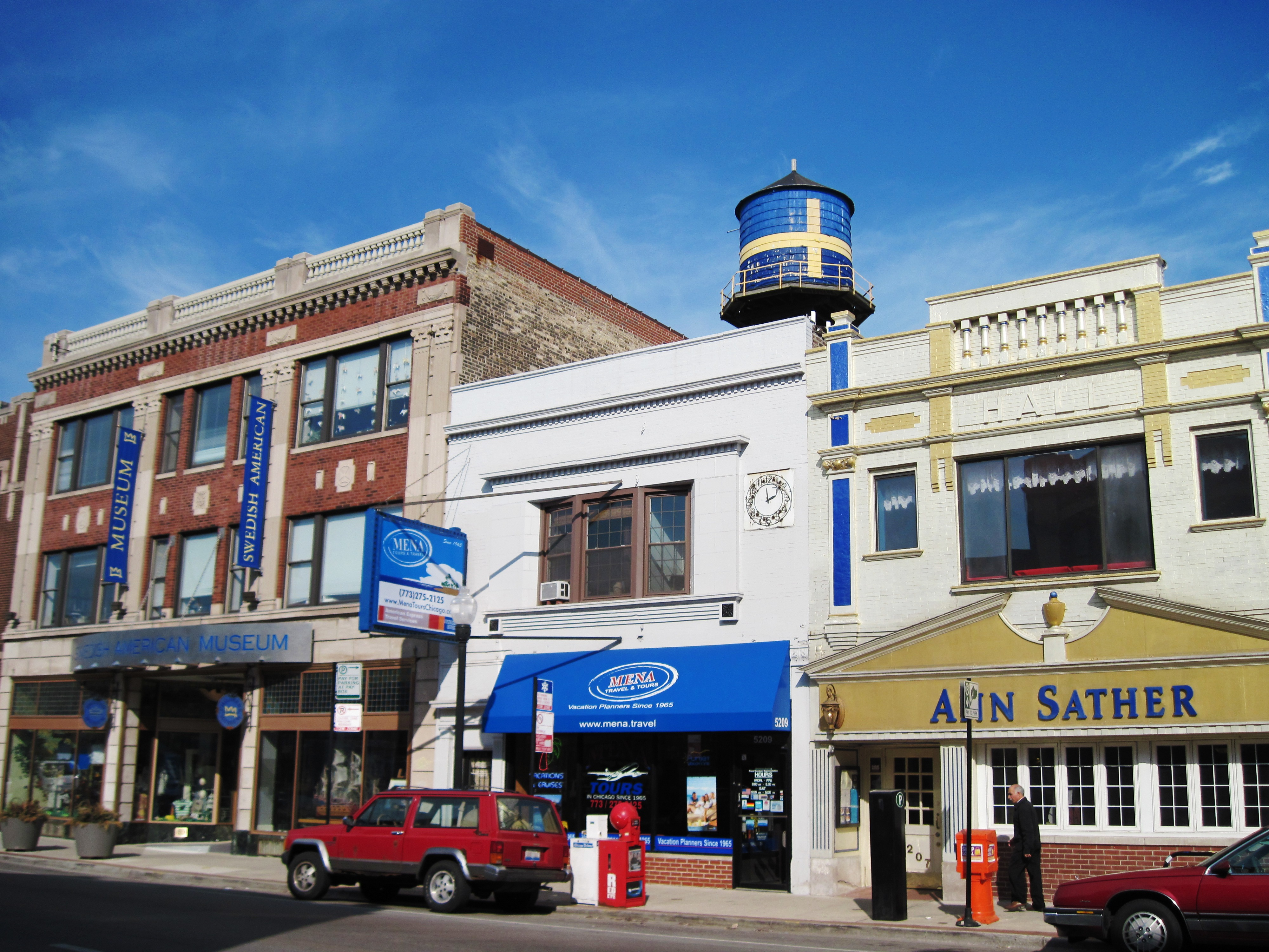 View of Andersonville, Chicago, near Foster and Clark